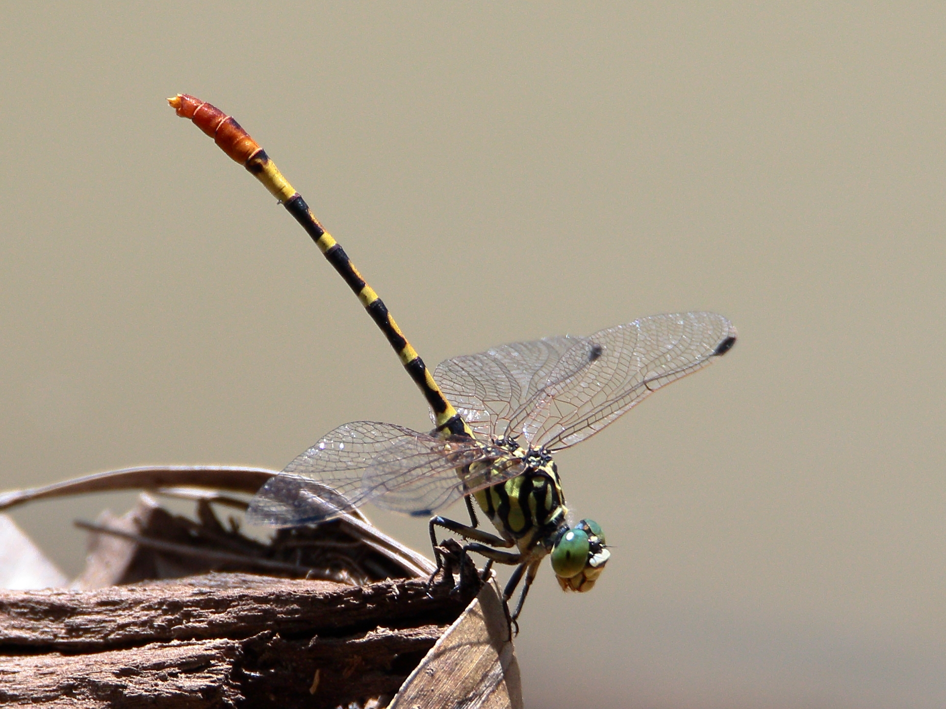 Flame-tipped Hunter